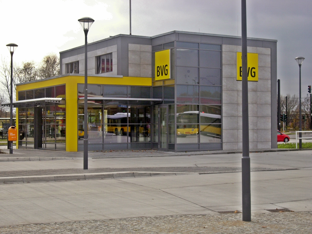 BVG customer center Marzahn